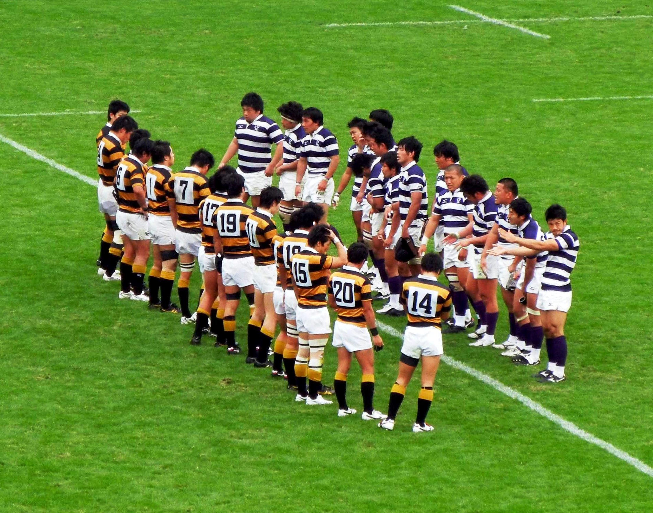 Keio University vs Meiji University (keimeisen）